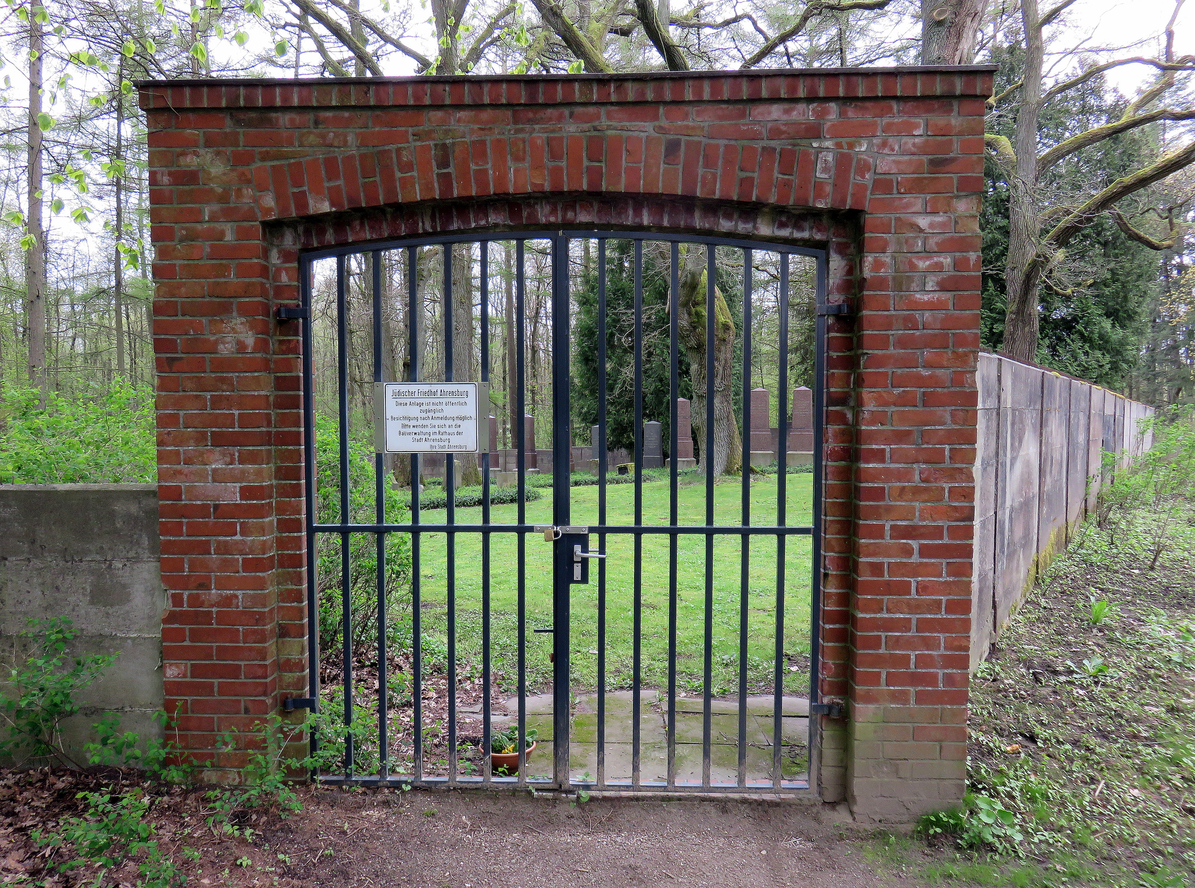 The Jewish Cemetery, junction Wulfsdorfer Weg / Am Haidschlag in Ahrensburg.